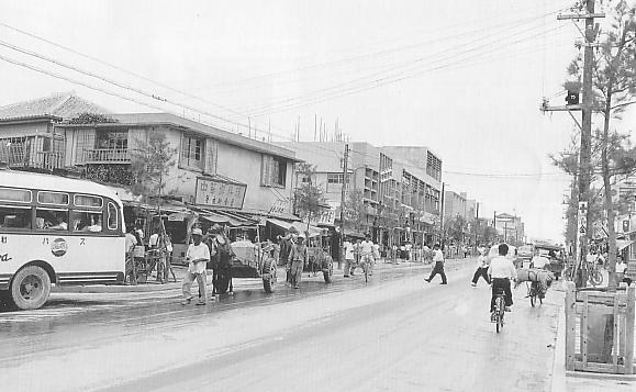 Kokusai Dori in 1955